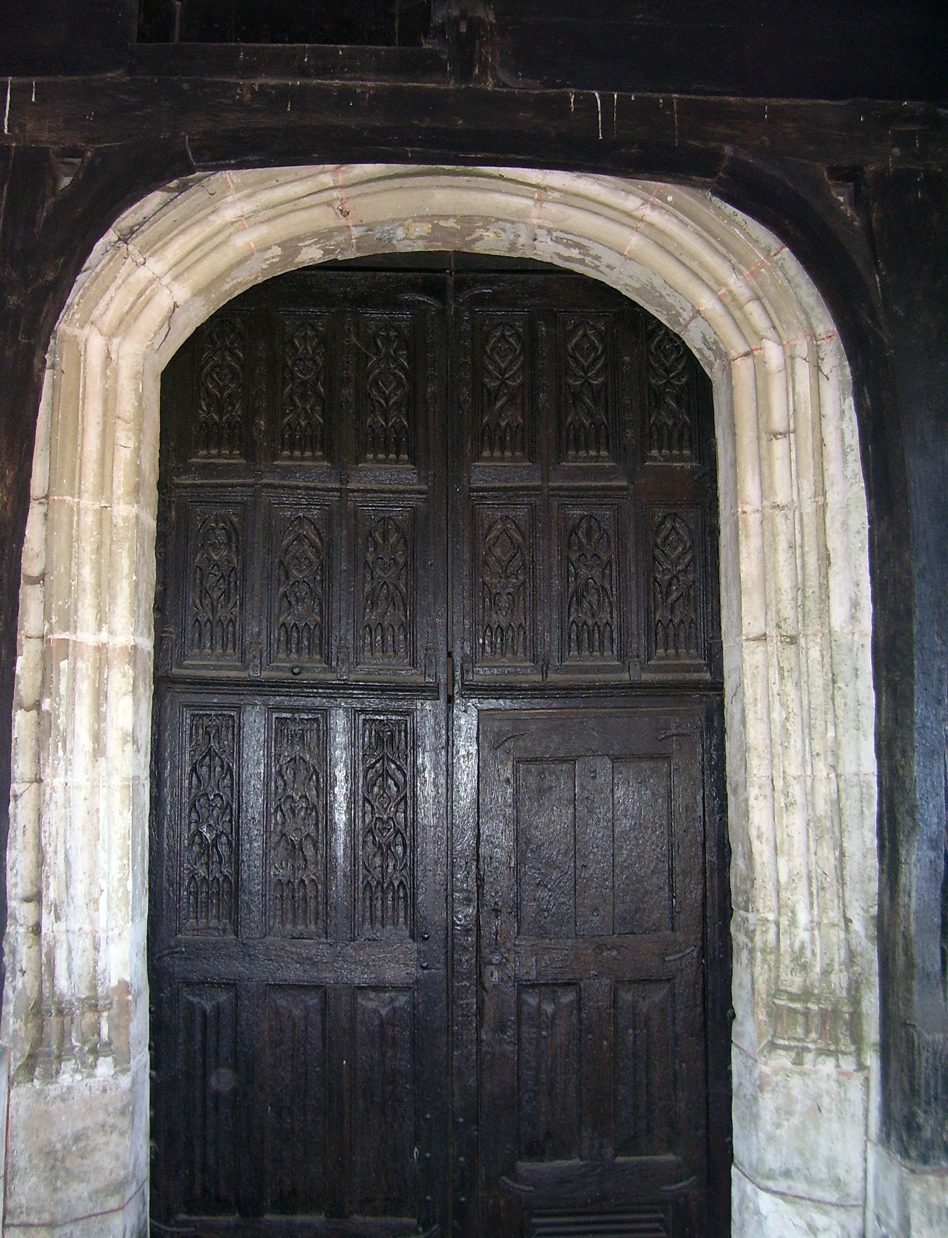 Door of the church Notre-Dame of Boissy-Lamberville (Eure, Haute-Normandie) in France.